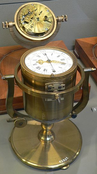 Small longitude clock no. 1